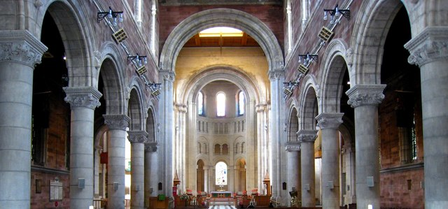 Spire of Hope [5] This is the interior of the Cathedral of St Anne (Belfast Cathedral). The Spire of Hope that can be seen from the outside is also visible within the Cathedral - if you look at the top of the photograph, the spire is seen just protruding downwards from the ceiling.